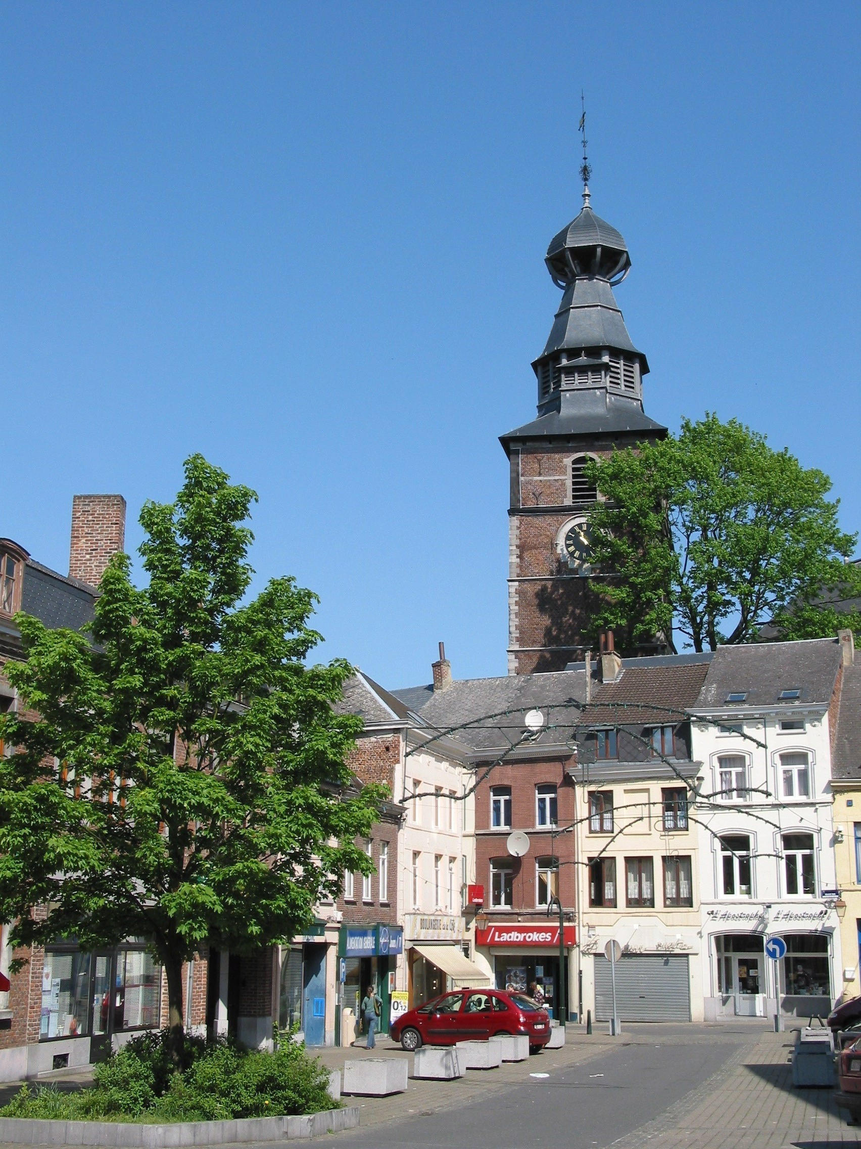 Gembloux (Belgium), the belfry.